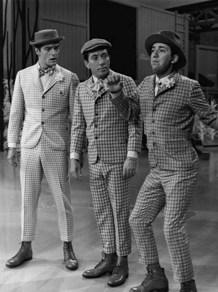 Photo of Robert Goulet, Andy Williams and Bobby Darin in a scene from a skit on The Andy Williams Show.